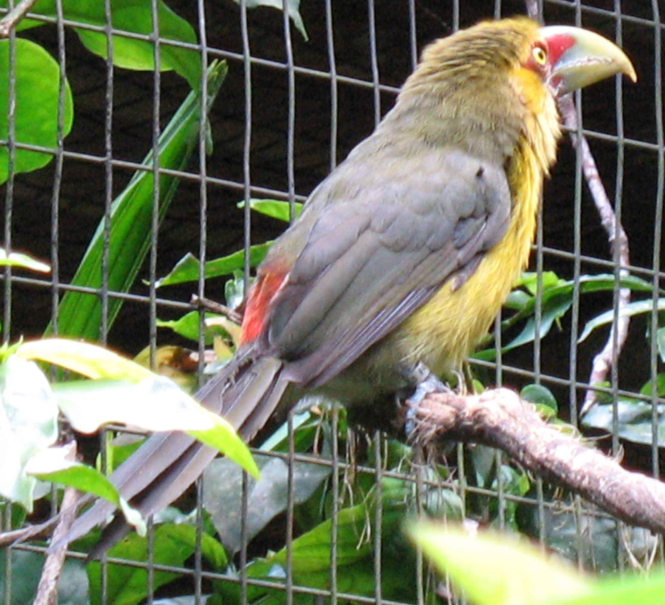 Saffron Toucanet (Pteroglossus bailloni), at the Bird Park of Foz do Iguaçu, Brazil